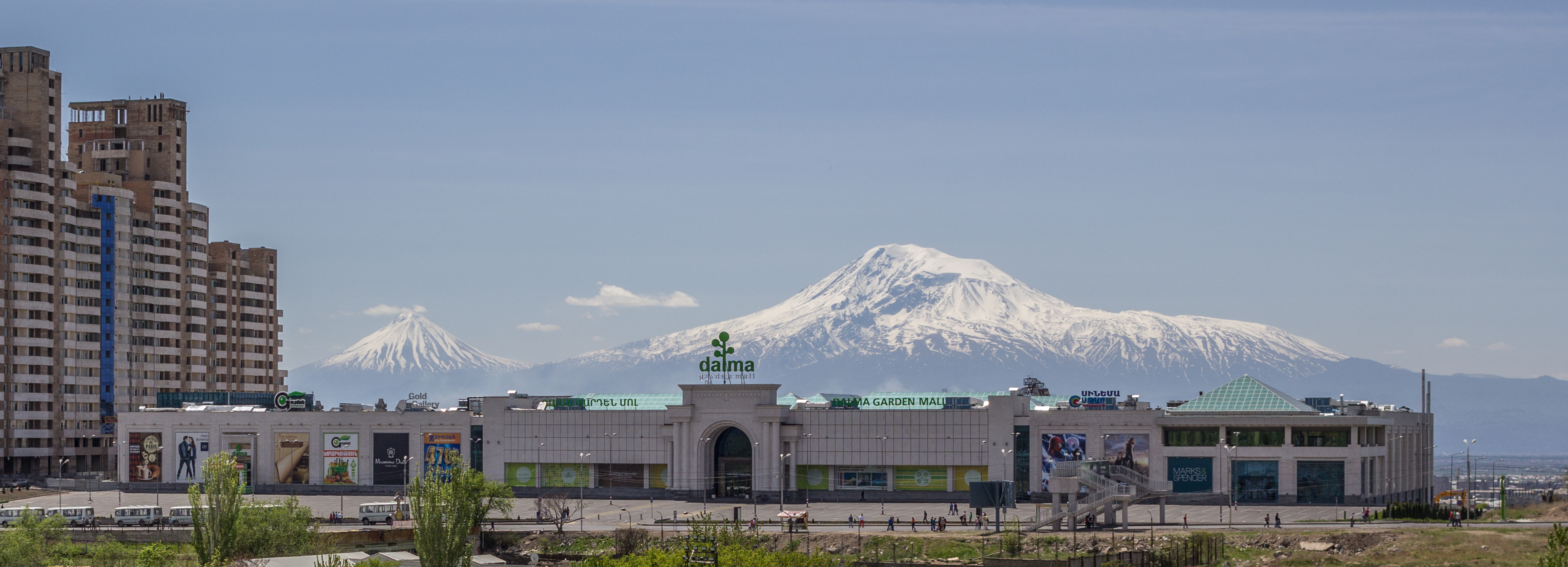 Dalma Garden Mall in Yerevan, with Mount Ararat in the background